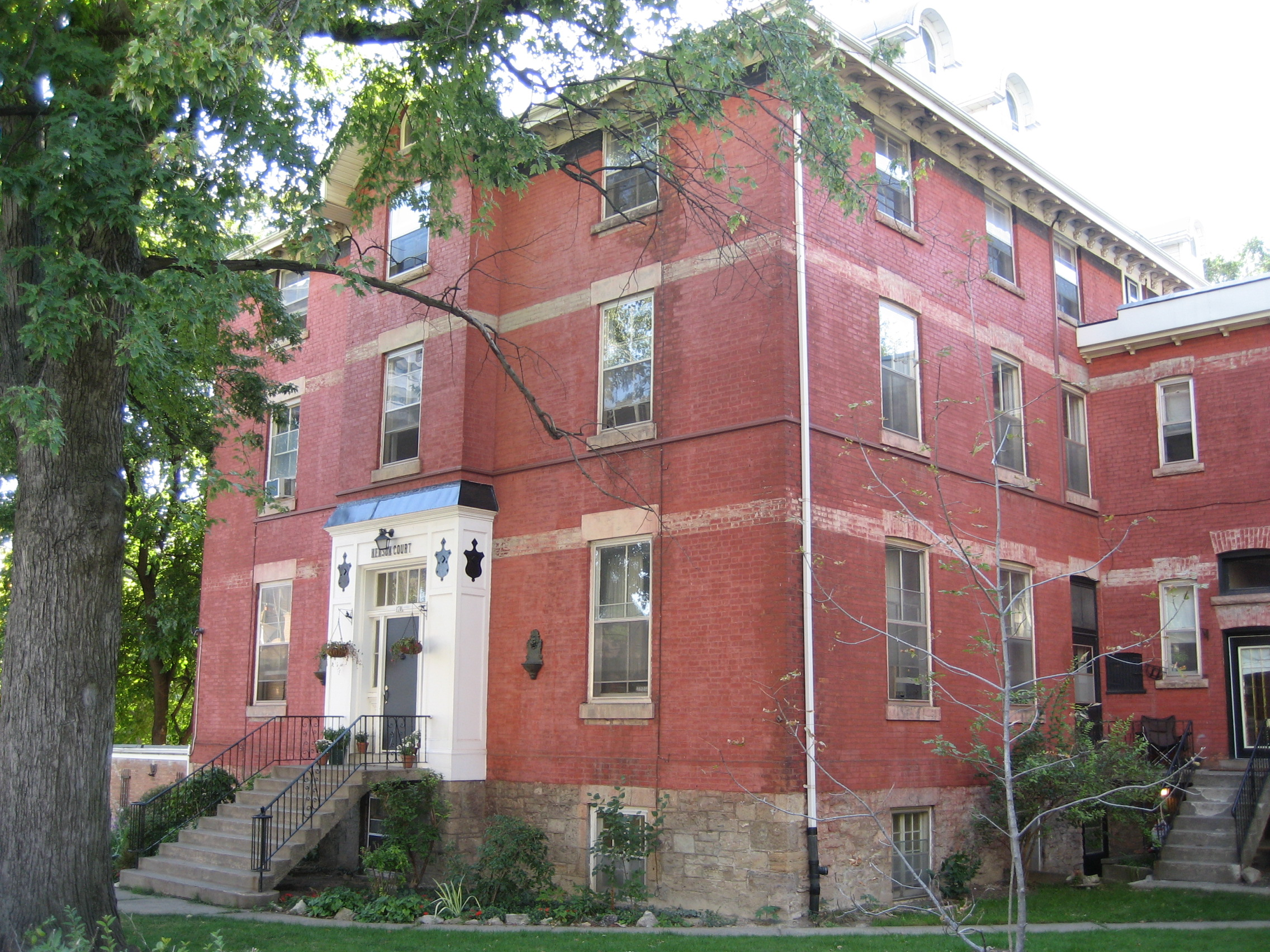 Caroline Street South, near Charlton Avenue West, Hamilton